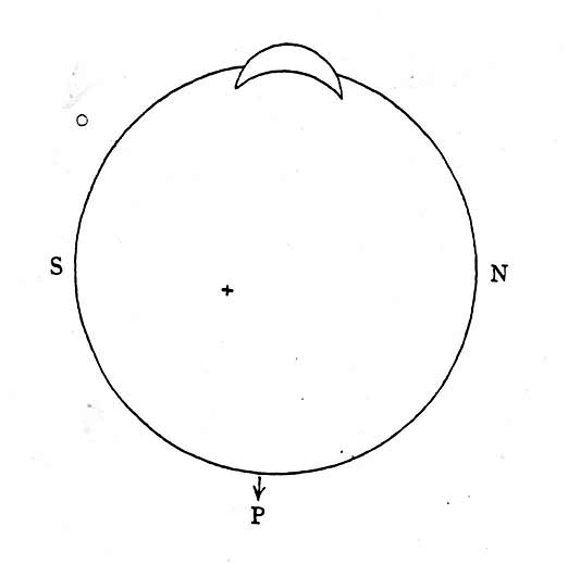 Barnard’s sketch of his “unexplained observation” of 13 August 1892. Crescent in the top is the Venus, cross marks the location of unexplained object.